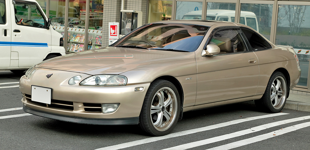 Toyota Soarer 4.0 GT